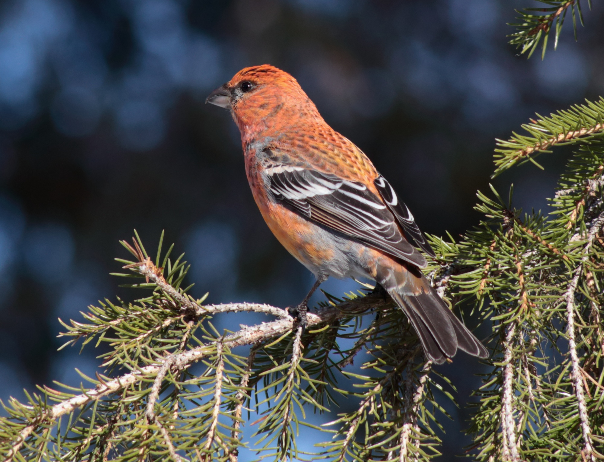 A male Pine grosbeak in Kittilä.